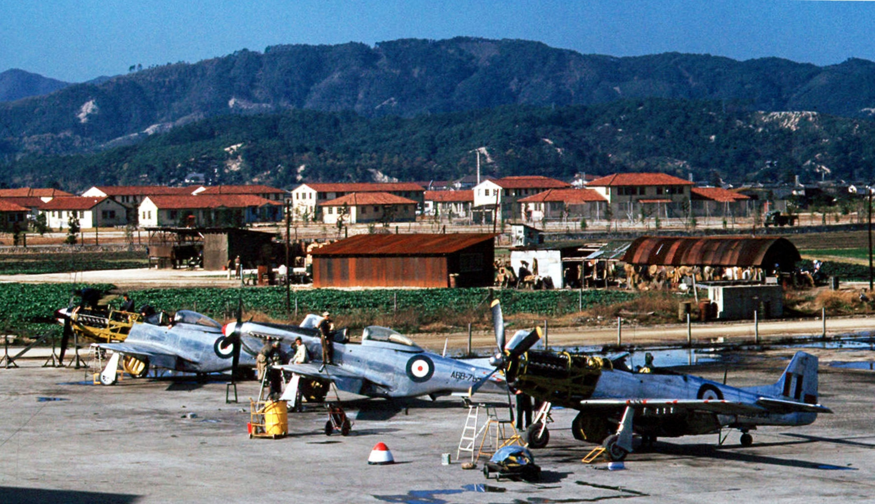 Royal Australian Air Force North American F-51D Mustang fighters from No. 77 Squadron in maintenance at Iwakuni, Japan. 77 Sqn was originally part of the British Commonwealth Occupation Force in Japan. By 1950 it was the only squadron representing the RAAF in Japan and was preparing to leave the country on 25 June 1950. Between 2 July 1950 and 6 April 1951 the squadron flew 3,800 sorties before the unit converted to the Gloster Meteor F 8.